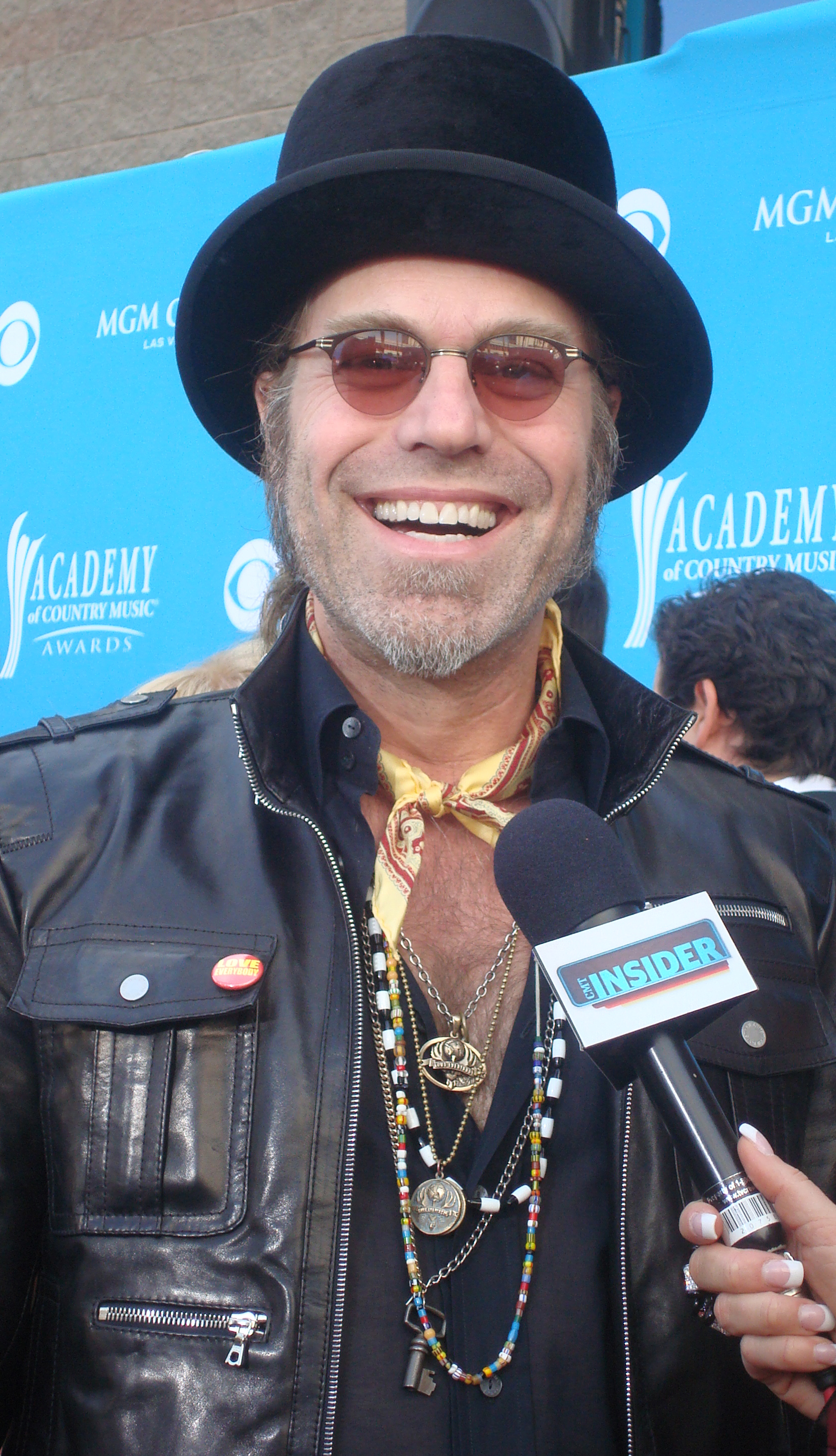 Big Kenny at the 45th Annual Academy of Country Music Awards.